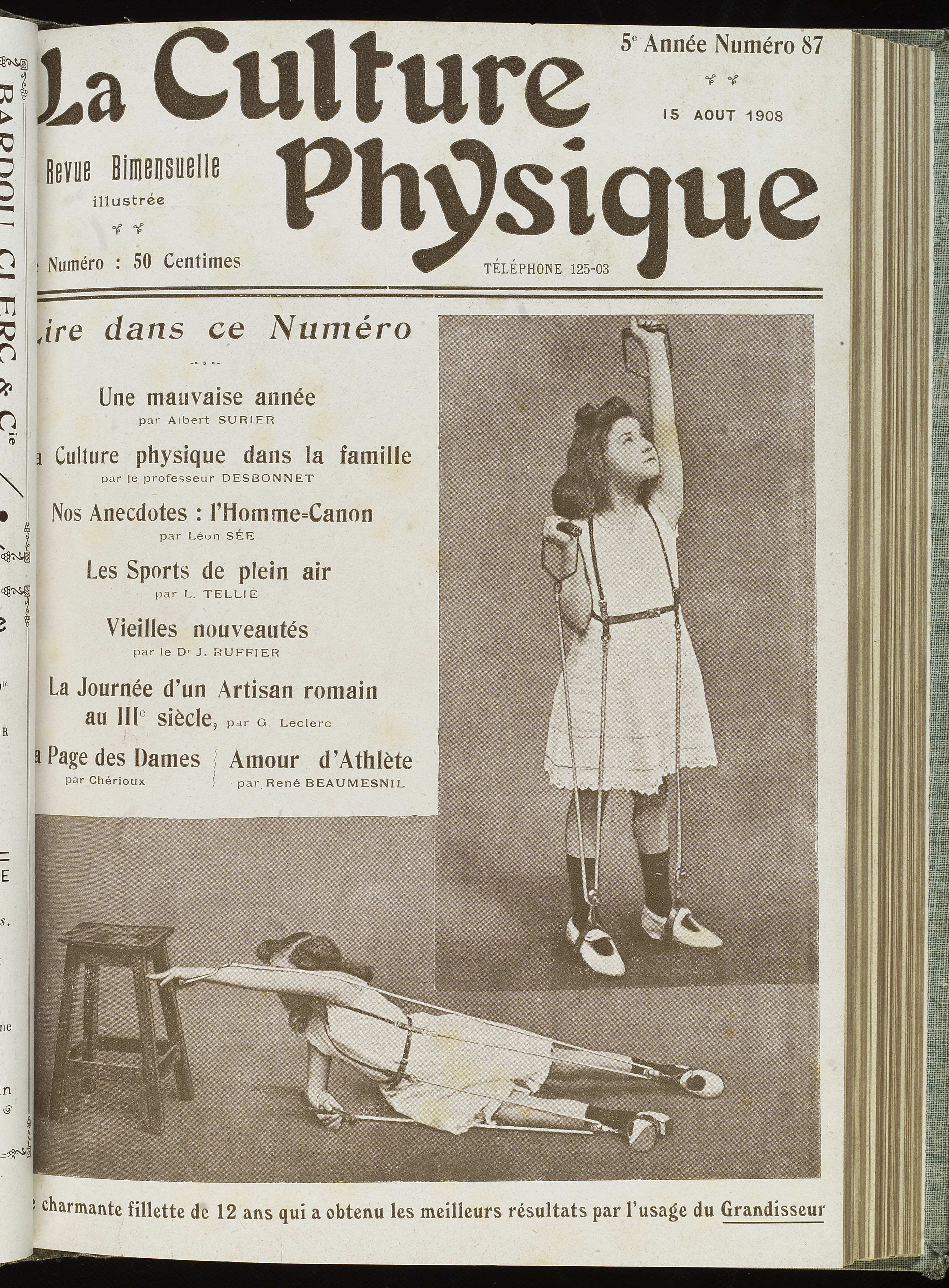 Cover of the magazine 'La Cultur Physique' showing 2 photographs of a 12 year old girl exercising and stretching with stirrup-type bands called 'La Grandisseur.' General Collections Keywords: Body; Strength; Beauty; Athlete; Stretching; Physique; Eugenics; Fitness; Athletes